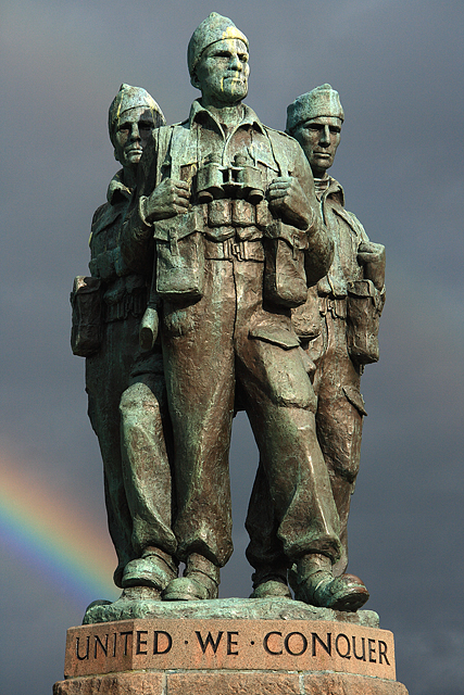 Commando Memorial - Spean Bridge, near to Highbridge, Highland, Great Britain.